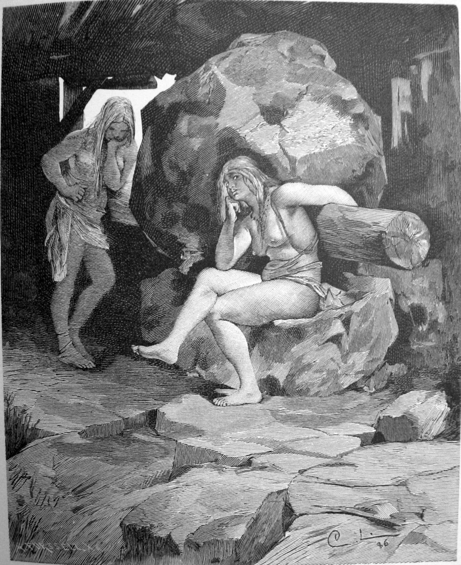 The engraving shows the giantesses Fenja and Menja beside the mill Grótti. One giantess is sitting near the center of the frame while the other is standing by the side. In the bottom right corner there is the signature of Carl Larsson (1853-1919), the artist and a date of [18]86. In the bottom left corner there is the signature of Gunnar Forssell (1859-1903), the xylographer. The image list on page 468 in the book describes this image as "Fenja och Menja vid kvarnen Grotte".